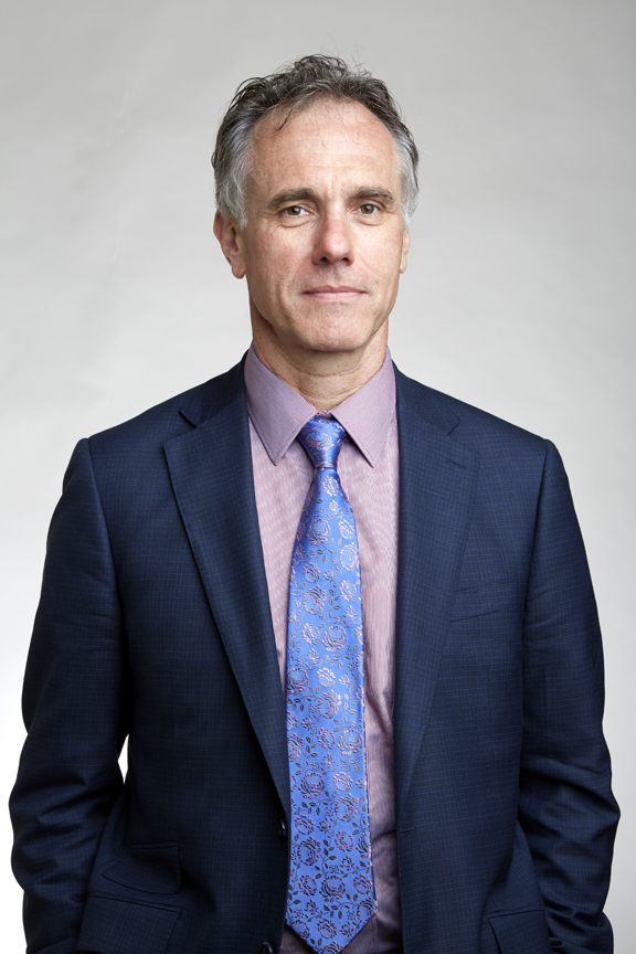 Richard Malcolm Marais is Director of the Cancer Research UK (CRUK) Manchester Institute and Professor of Molecular Oncology at the University of Manchester Attribution: The Royal Society